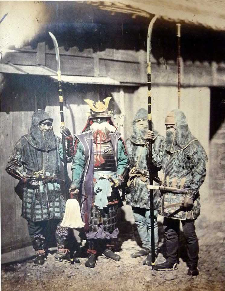 Samurai wearing kusari katabira (chain armor jackets) and kusari zunin (chain armor hoods) with hachi gane (forehead protectors).